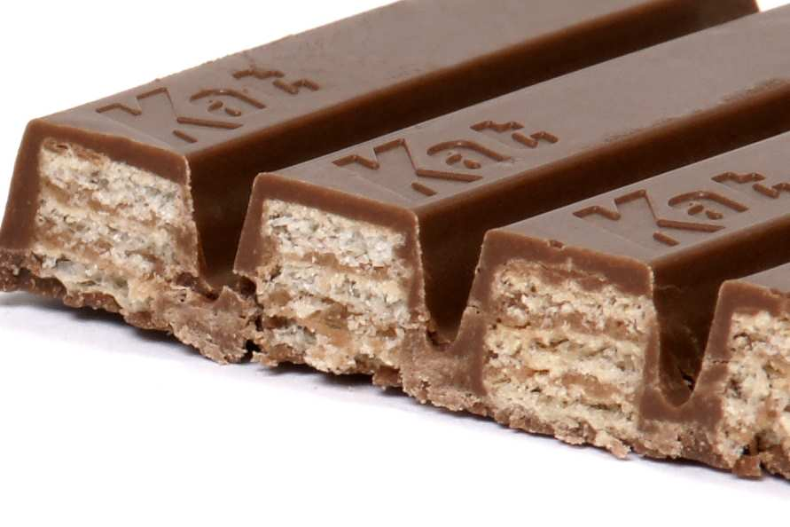 Kit Kat, a Nestlé chocholate